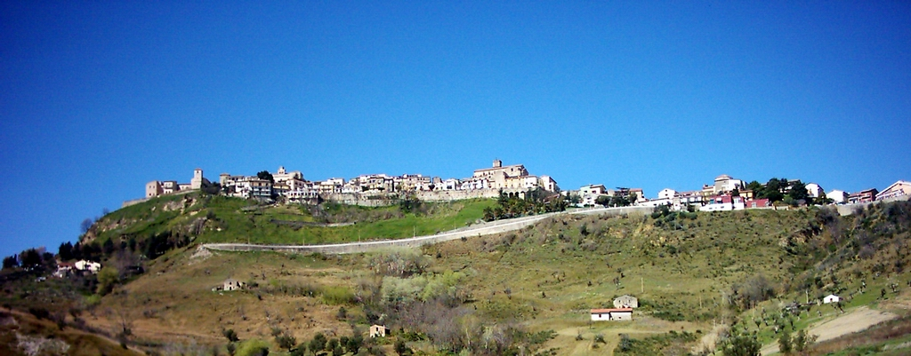 View of Rende - from Petroni